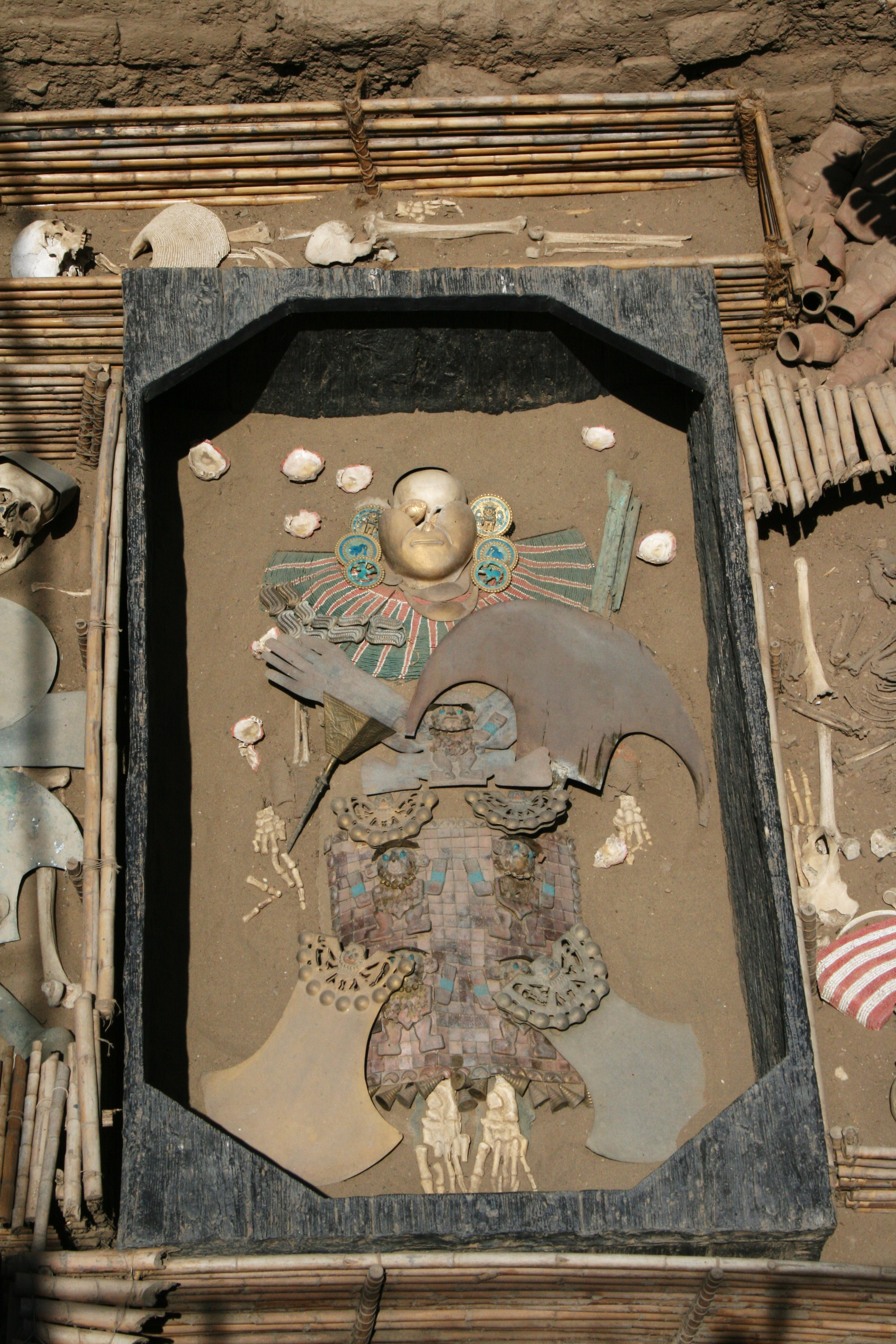 Picture of Tomb of Lord of Sipan, Peru (Reconstruction on site).